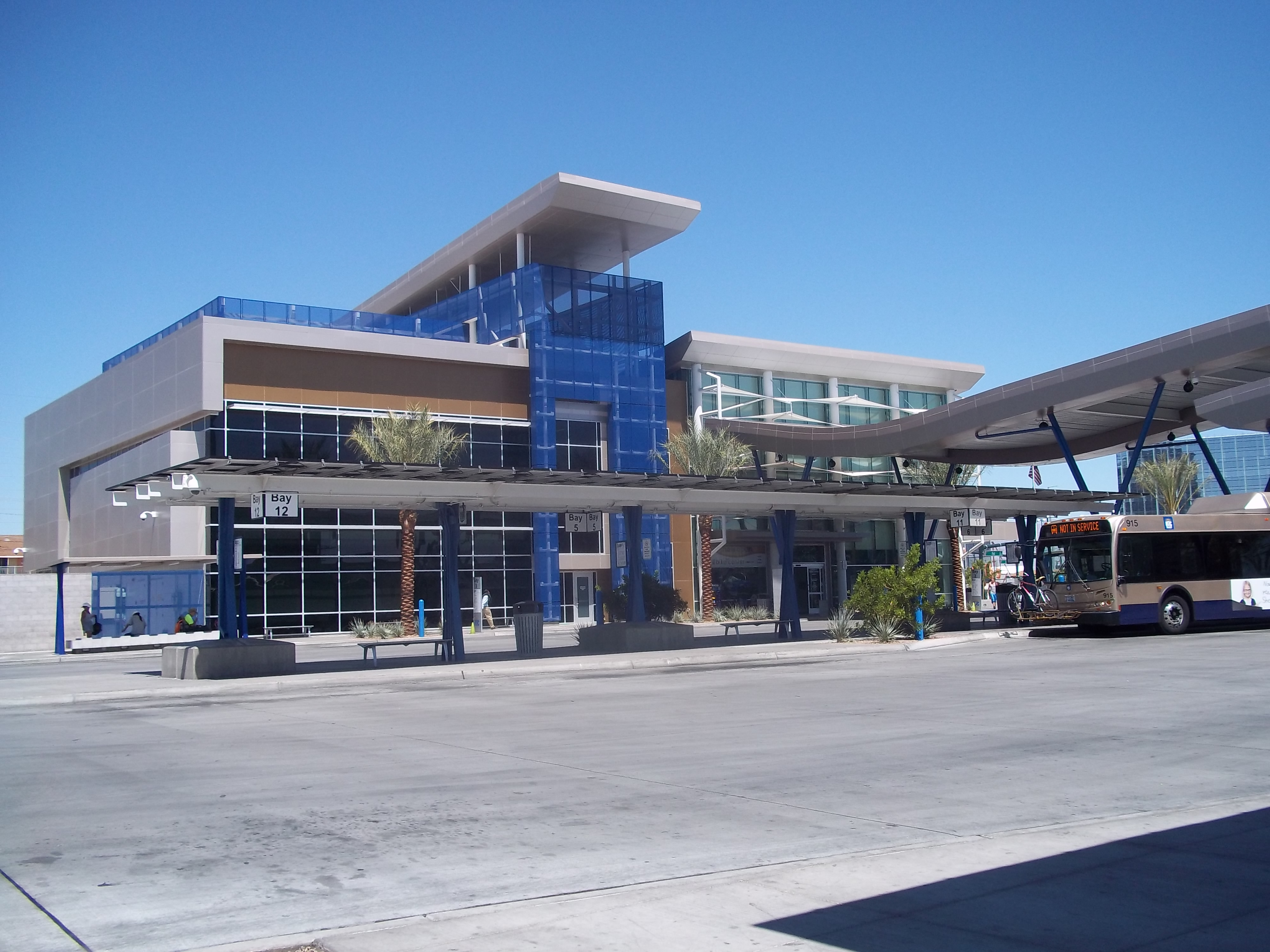 A photo of the southeast façade of the Bonneville Transportation Center at downtown Las Vegas, Nevada. Operated by the Regional Transportation Commission. The bays where the buses offload/onloaded are roofed with solar panels.